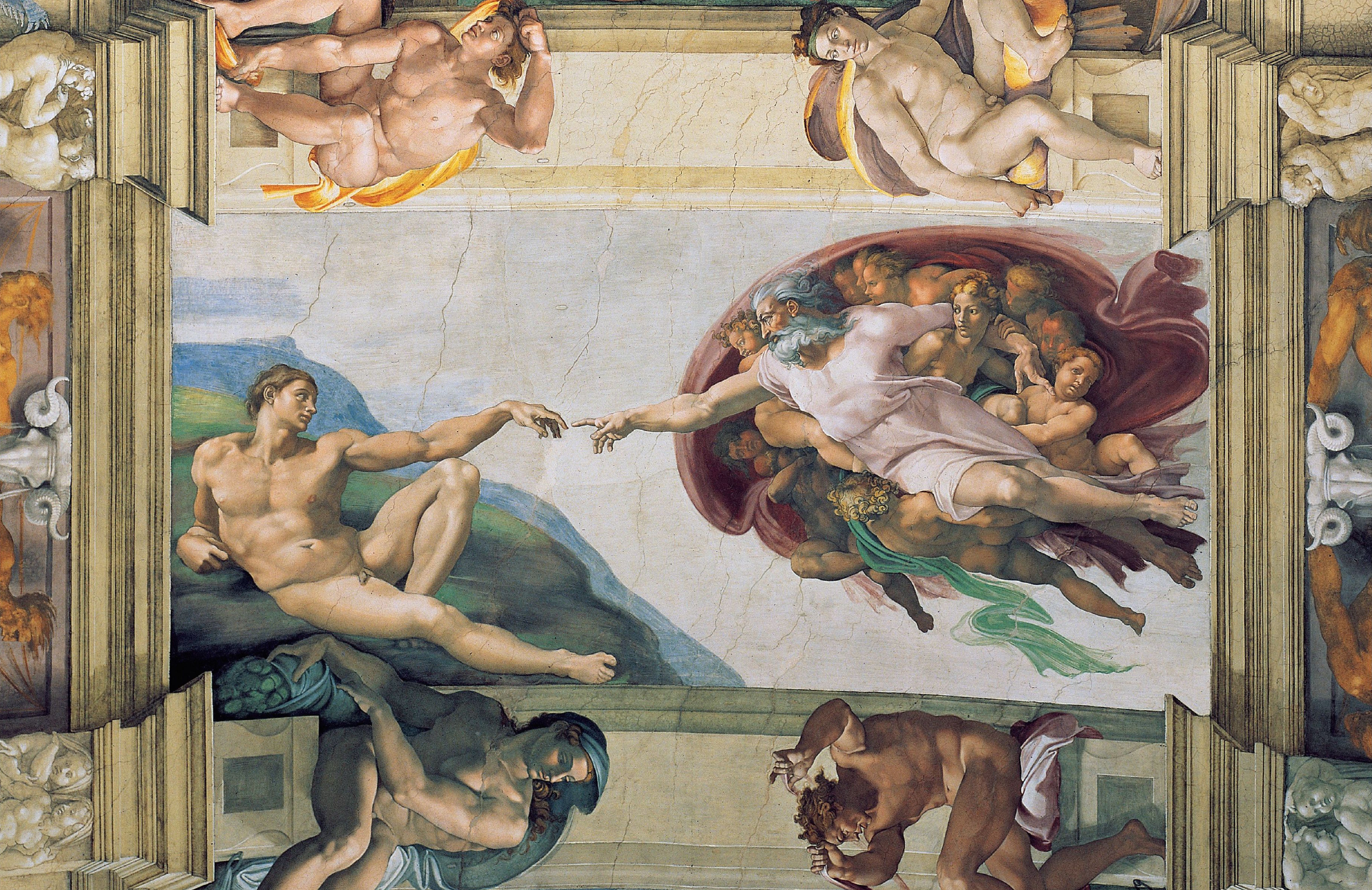 Sistine chapel ceiling.